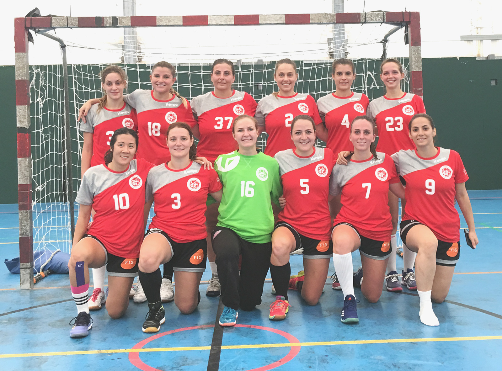 Women Premier Handball League London GD Handball Club